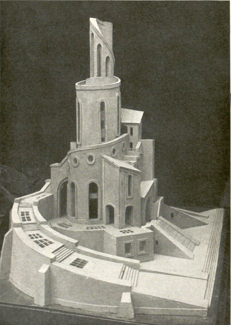 Georgi Yakulow, Vladimir Shchyuko. The model of the monument to 26 Baku commissars. 1924 The model was exhibited at the Exposition internationale des Arts décoratifs et industriels modernes (1925)